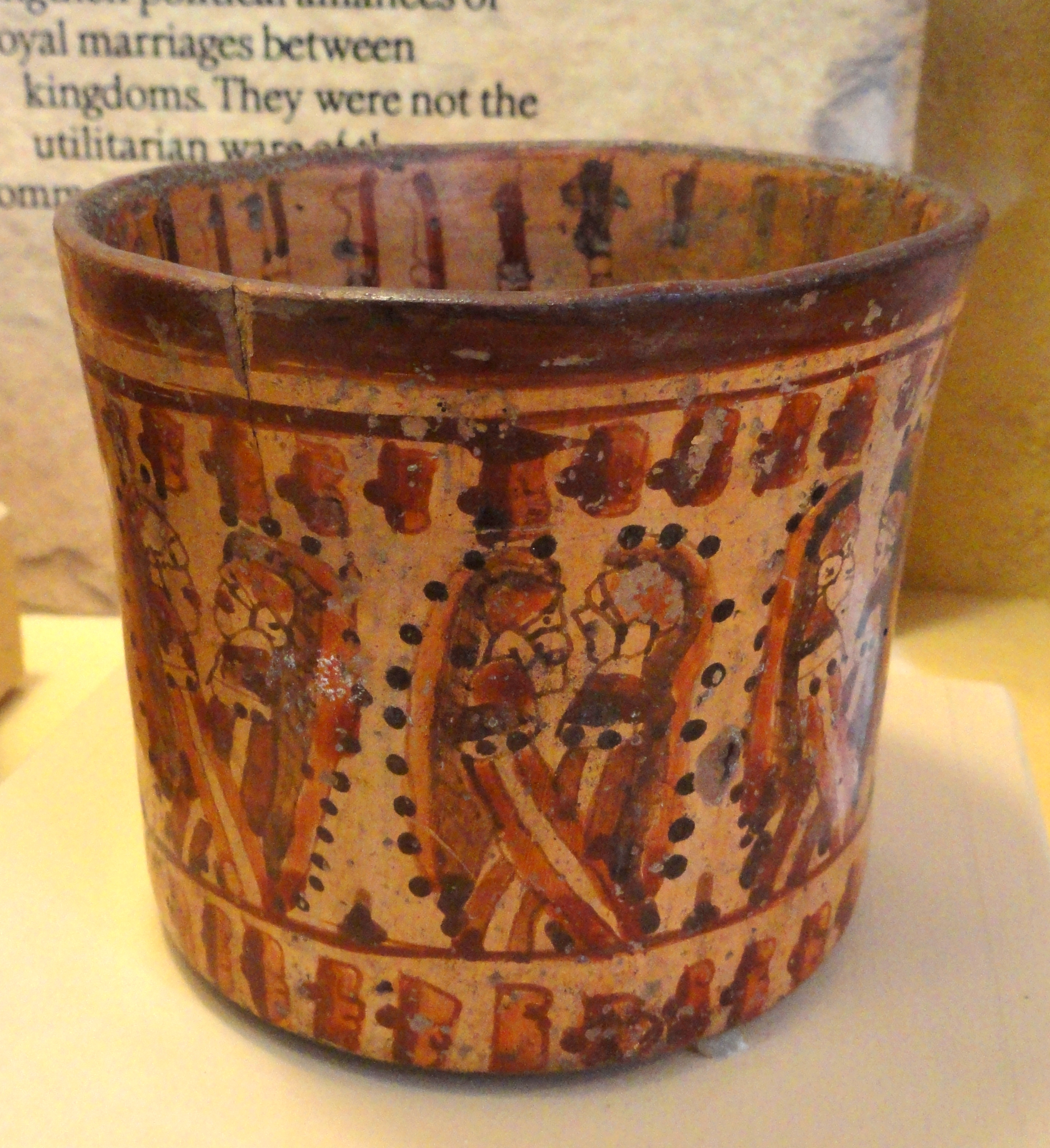 Exhibit in the San Diego Museum of Man, San Diego, California, USA. This artwork is old enough so that it is in the public domain.